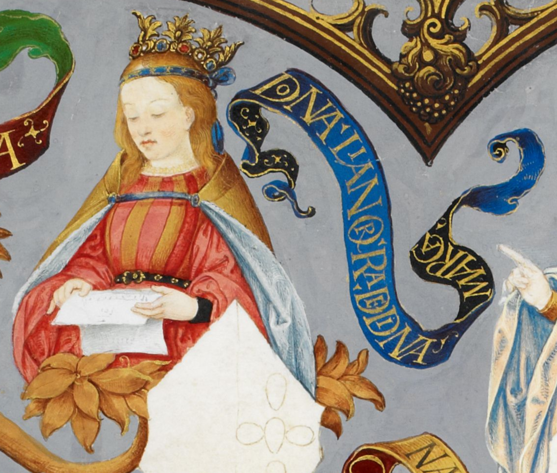 Eleanor of Portugal (1211-1231), Queen consort of Denmark by marriage to Danish King Valdemar the Young.